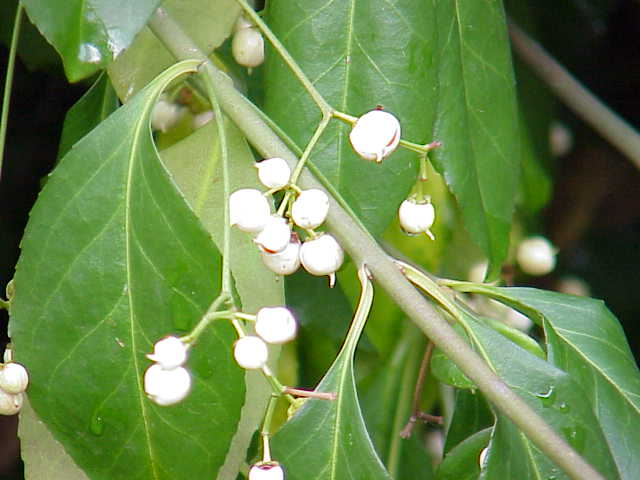 Species: Euonymus fortunei radicans Family: Celastraceae Image No. 1